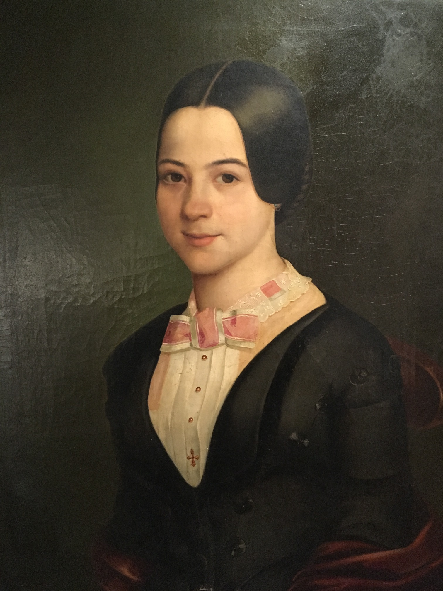 Portrait of Mina Karadžić - Jovan Isailović mlađi Srpski (latinica): Portret Mine Karadžić - Jovan Isailović mlađi